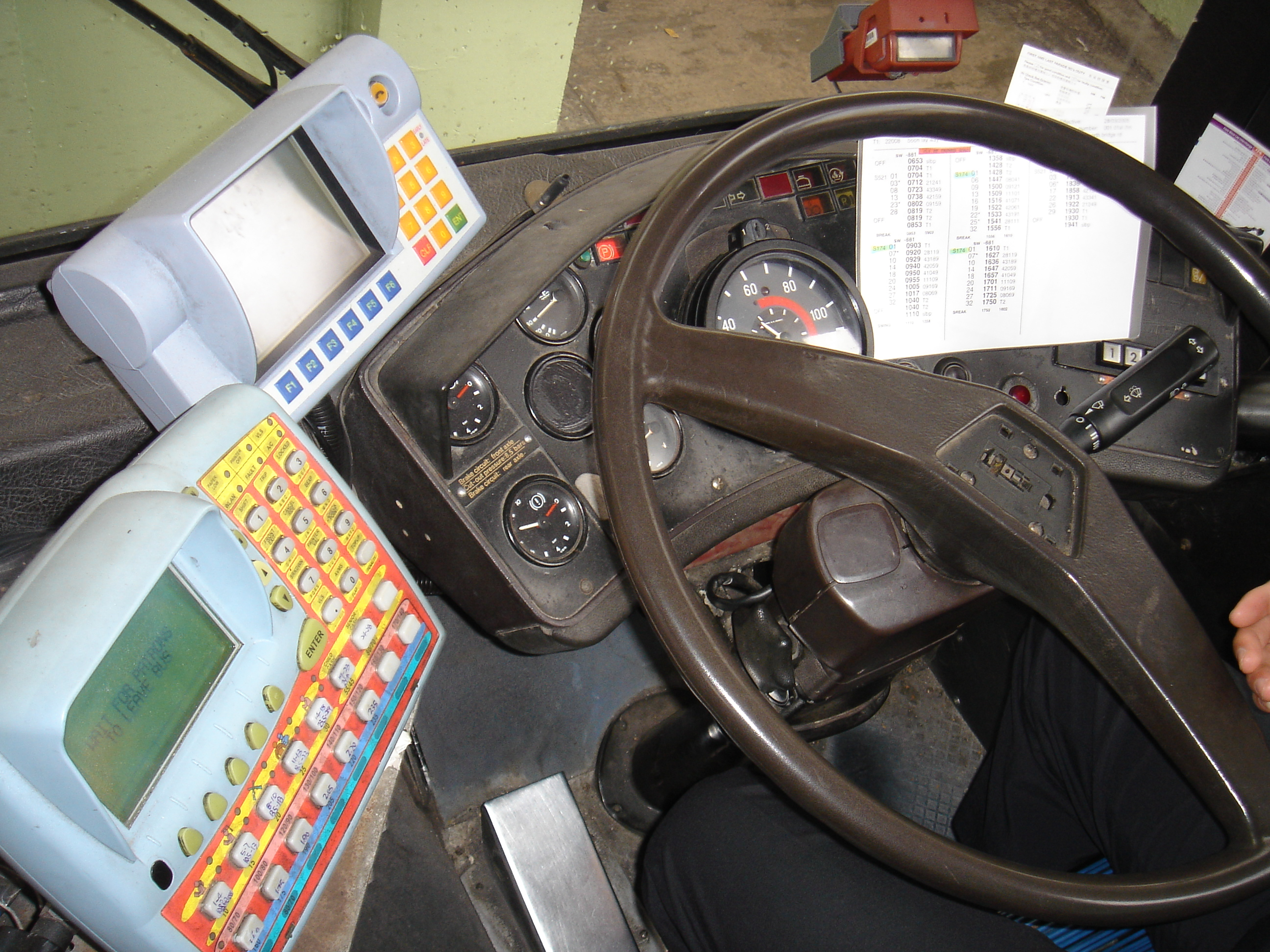 Cab view of a SBS Transit Duple Metsec bodied Mercedes-Benz O405 (Converted Air-Con, built 1990, 1991 or 1992) in Singapore.